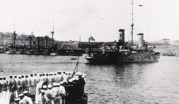 Japanese battleship Nisshin in Malta. 1919. Public Domain.